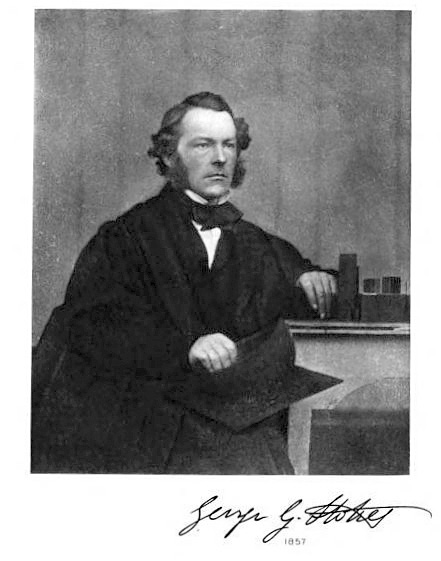 Picture of George G. Stokes